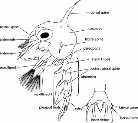 Una larva zoea de branchyra en donde señalan sus partes